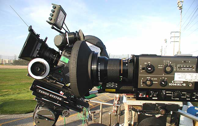 I took this photo. I own it. John Longenecker. 800 460-4602